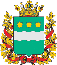 Amur oblast, coat of arms